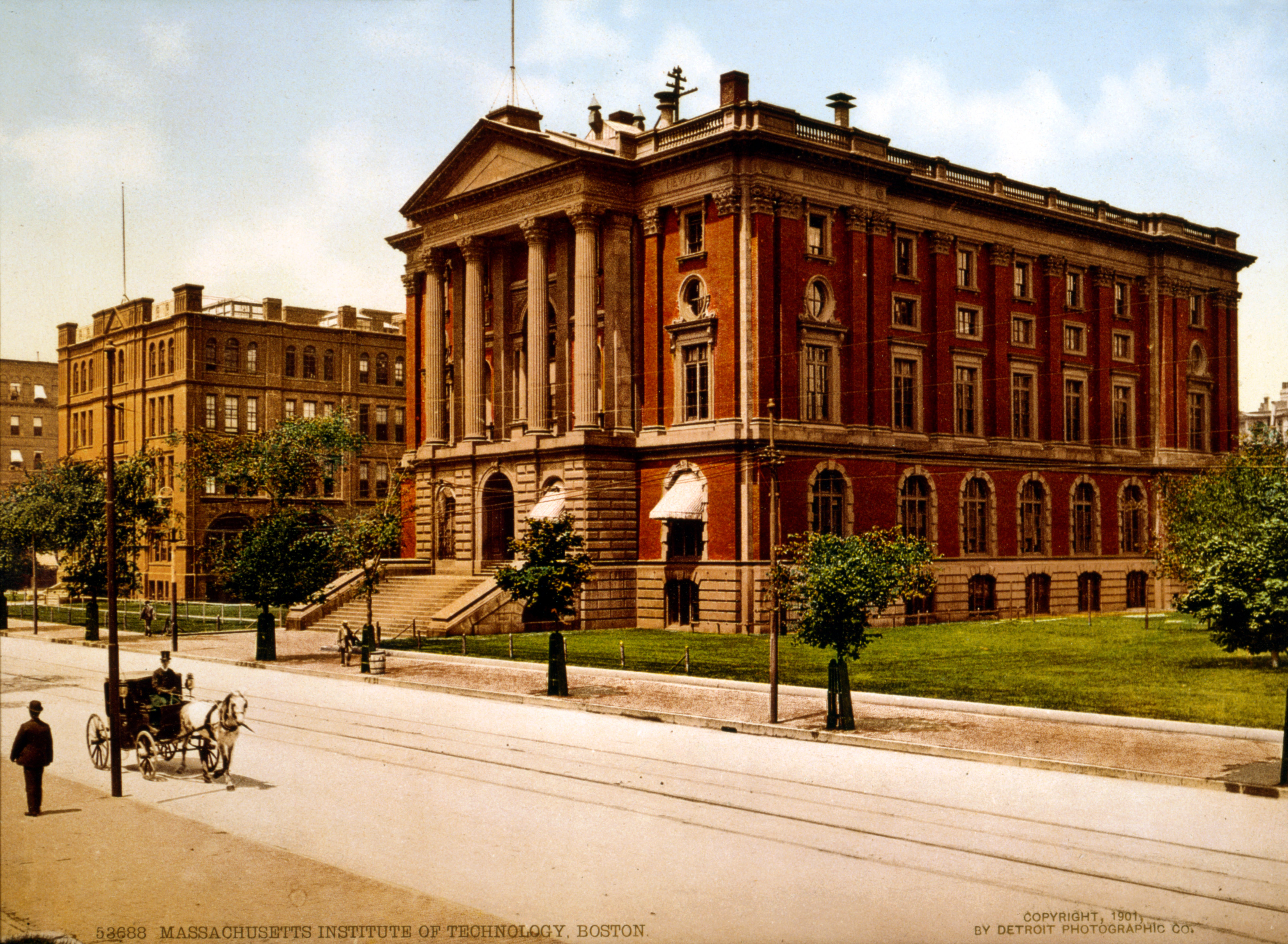 Photochrom print of the Rogers Building, the first building of the Massachusetts Institute of Technology.